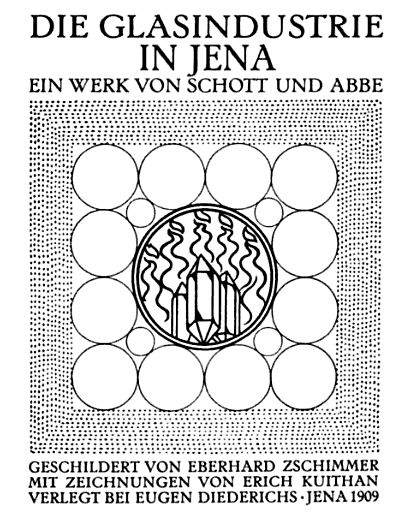 Illustration by Erich Kuithan, 1909